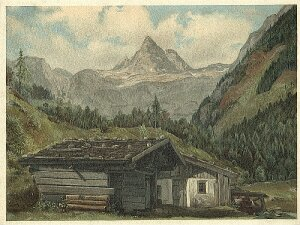 Blacksmith's Shop in Lofru, alternate version